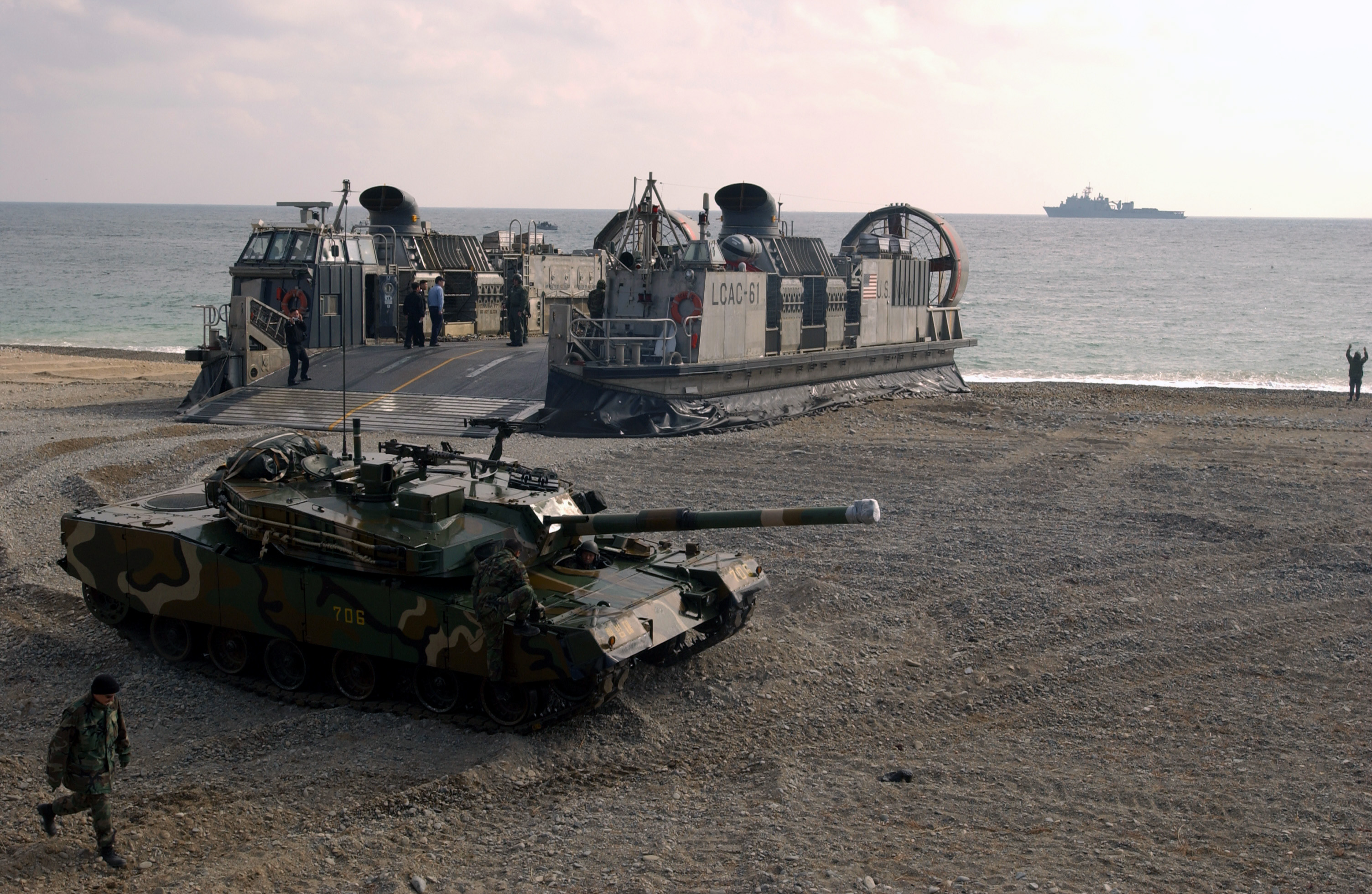 040326-F-0193C-020 Pohang Beach, Korea (Mar. 26, 2004) - A Republic of Korea Type 88 K1 Main Battle Tank drives off a U.S. Navy Landing Craft Air Cushion (LCAC) throughout a simulated amphibious attack on Pohang Beach, Korea, during Reception, Staging, Onward Movement, and Integration, and Foal Eagle 2004. The exercise is an annual U.S. and South Korea exercise tailored to evaluate command capabilities to receive U.S. Forces from outside Korea while teaching, coaching, and mentoring exercise participants. U.S. Air Force photo by Staff Sgt. D. Myles Cullen. (RELEASED)